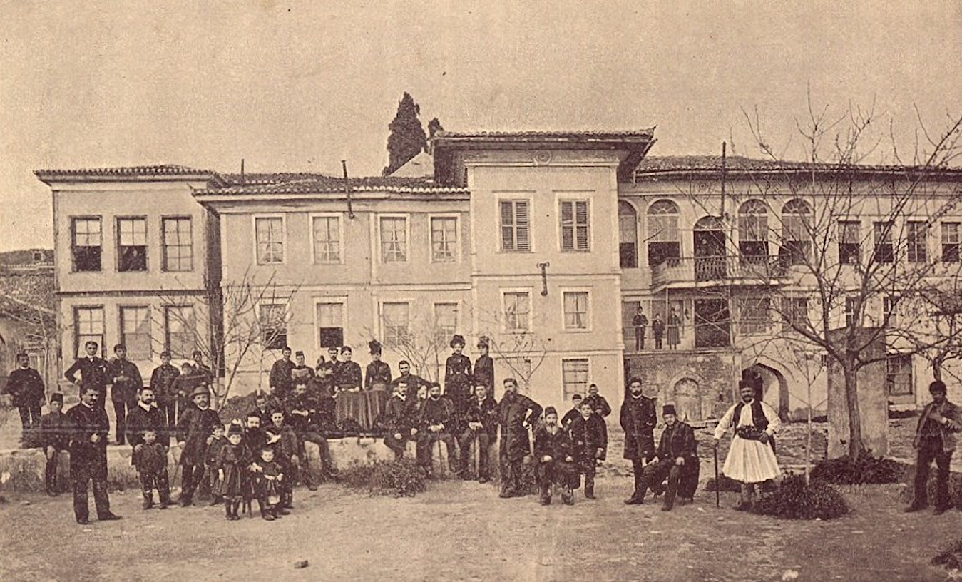 Bulgarian Men's High School of Thessaloniki in 1891